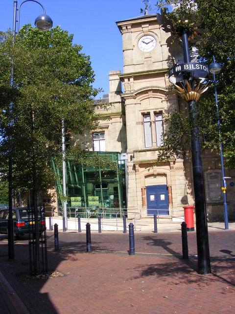 Town Hall. Bilston Town Hall build in 1872 now re-opened since September 2008 and its ballroom refurbished after being empty for 12 years.13608